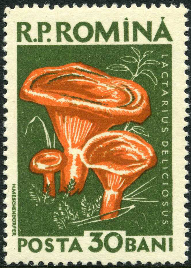 Romanian stamp, 1958, series of mushrooms, Lactarius deliciosus